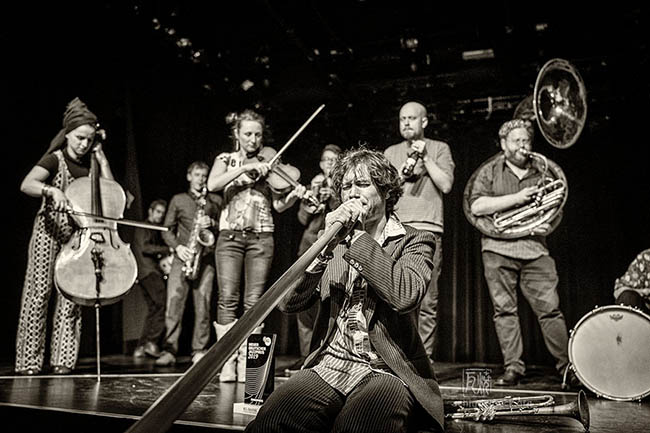 Mathias Schriefel with Shreefpunk plus Strings, Mannheim